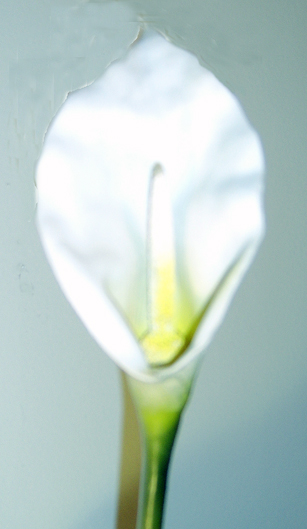 Easter Lily used by Irish Republicans to remember the Easter Rising 1916.